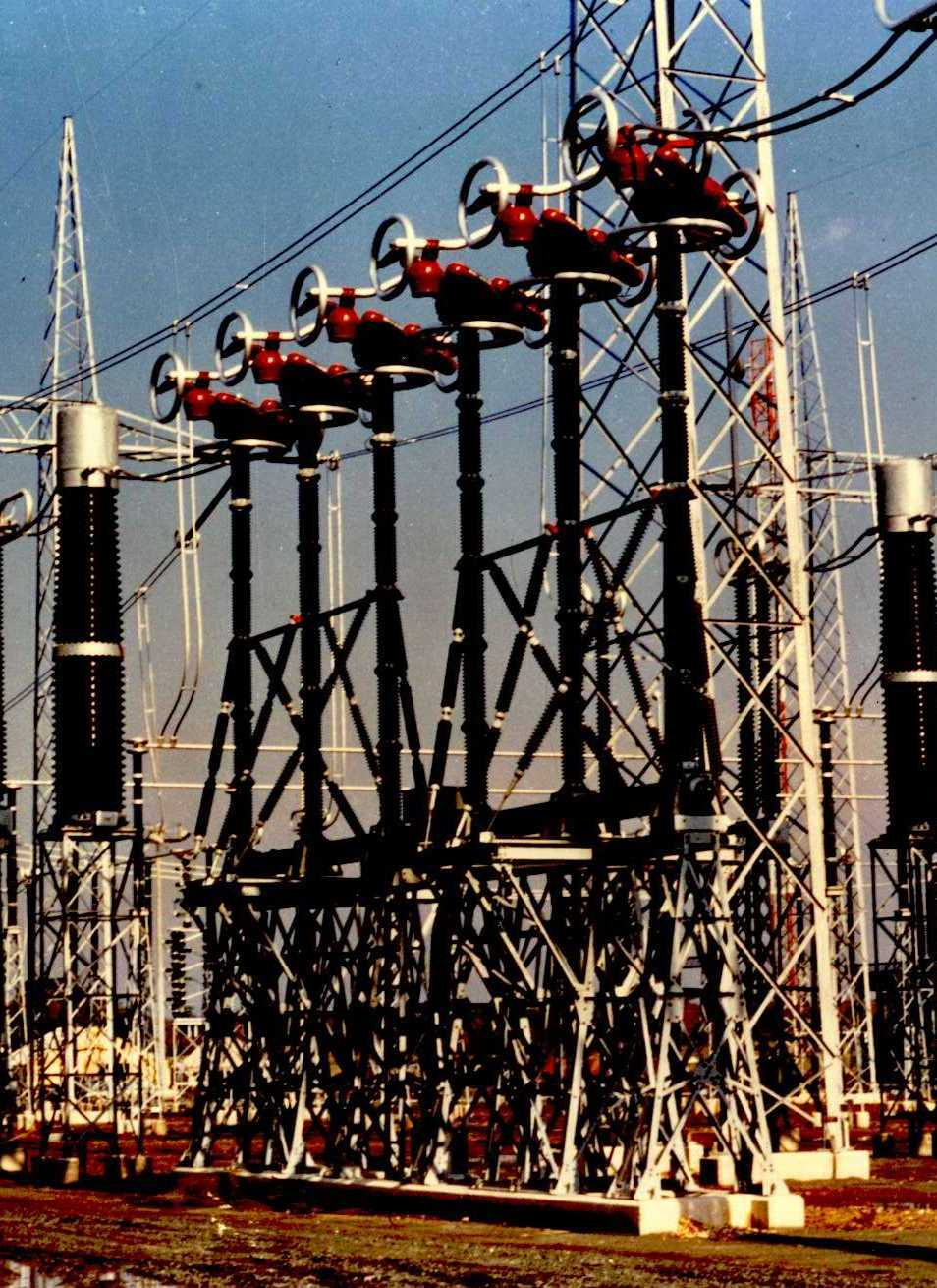 Air blast circuit breaker